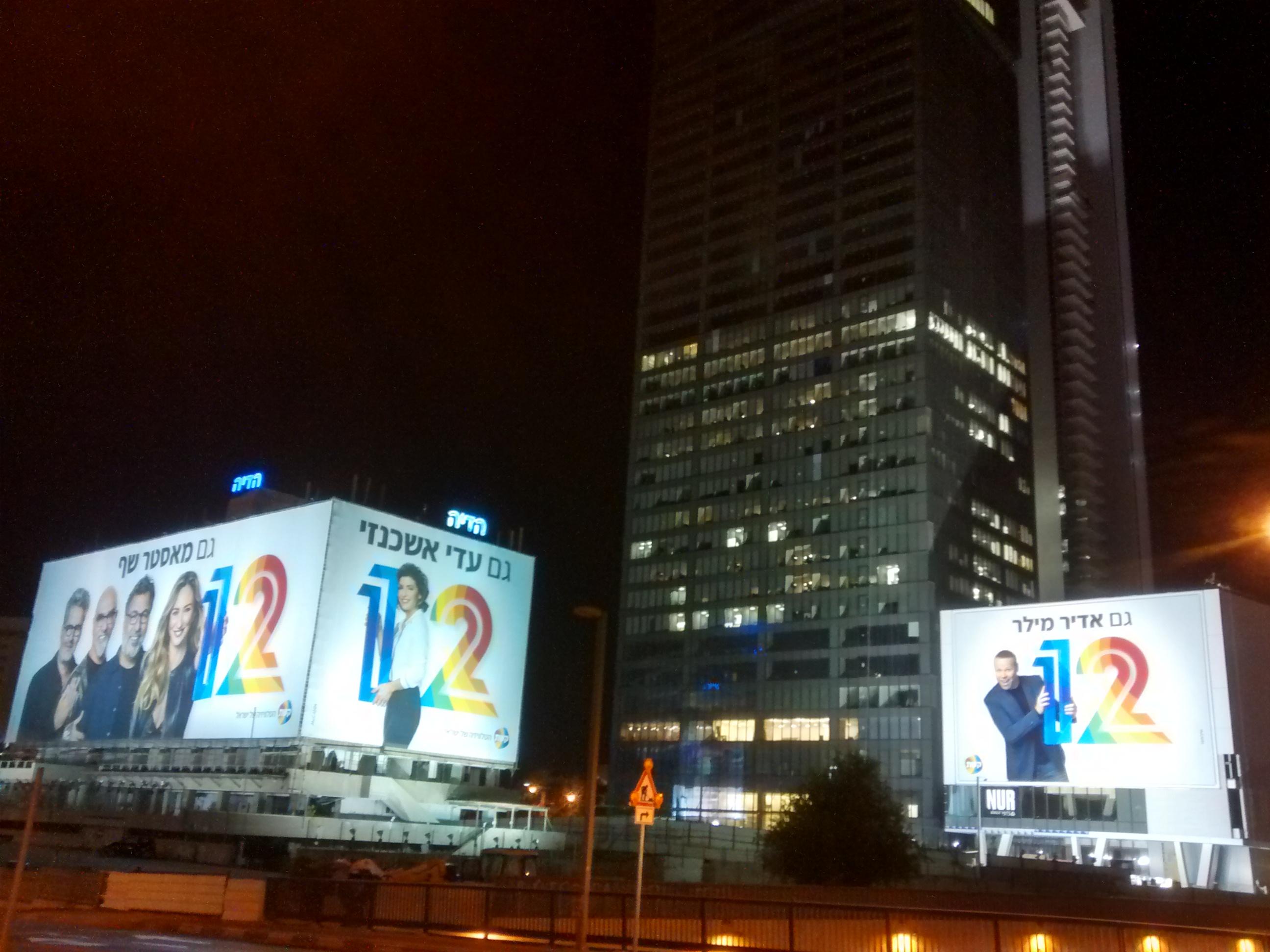 Keshet campain in Tel Aviv 2017, few days before the closure of channel 2